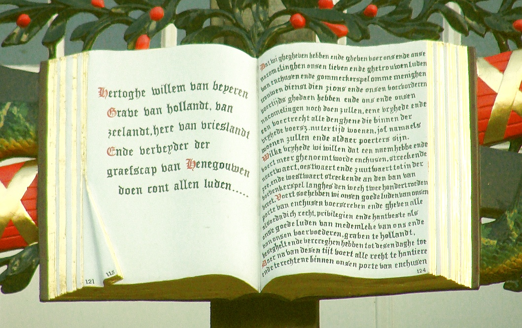 Book on the facade of the town hall of Enkhuizen, with the text of the charter in which Count William V of Holland granted Enkhuizen city rights in 1356